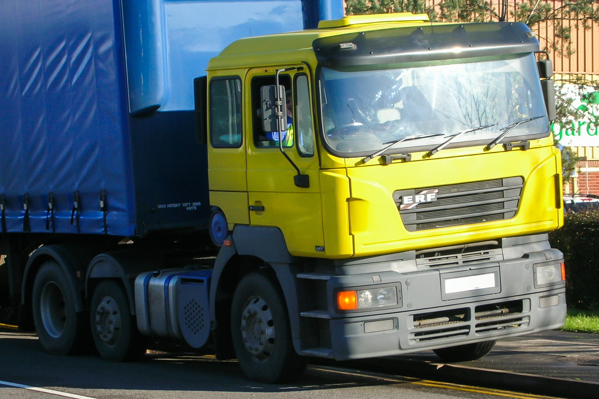 A 2001 ERF ECX tractor unit with a MAN F2000 Cab